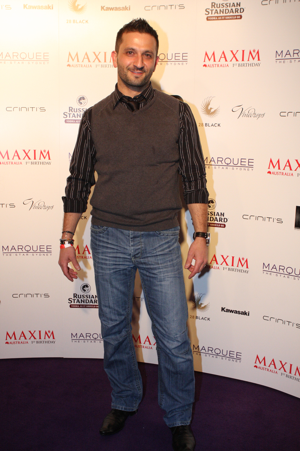 Maxim magazine celebrates 1st birthday at The Star, Sydney, Australia Marquee Sydney helps Maxim celebrate first birthday... Last night at The Star popular men's magazine, Maxim Australia, celebrated its first birthday. If you didn't know already, Maxim is a lad's mag, and this issue is blessed with Australian sports model, Lauryn Eagle. Did we mention Lauren is a boxer, kick boxer, water skier and more! She's also one of Australia's most popular sports models these days. The magazine and is sponsors, advertisers, models and everyone else associated with it should be happy with tonight's turn out, and any print magazine out of Australia that is still in business does have something to celebrate. Joining Lauryn were other names and celebs including Brittany Bloomer, Grant Dwyer, Rochelle Fox, Nacho Pop, Brittany and Anthony Cairns, Annalise Braakensiek. Well done to everyone involved in tonight's birthday success. Wrap Up... The Star's tag line is 'There will be stories', and its a sure bet Star will keep living up to that if tonight was any indication. A casino matched with Maxim Australia, a media pack, models and more - that's going to make news. Websites The Star Echo Entertainment Maxim Australia Music News Australia Eva Rinaldi Photography